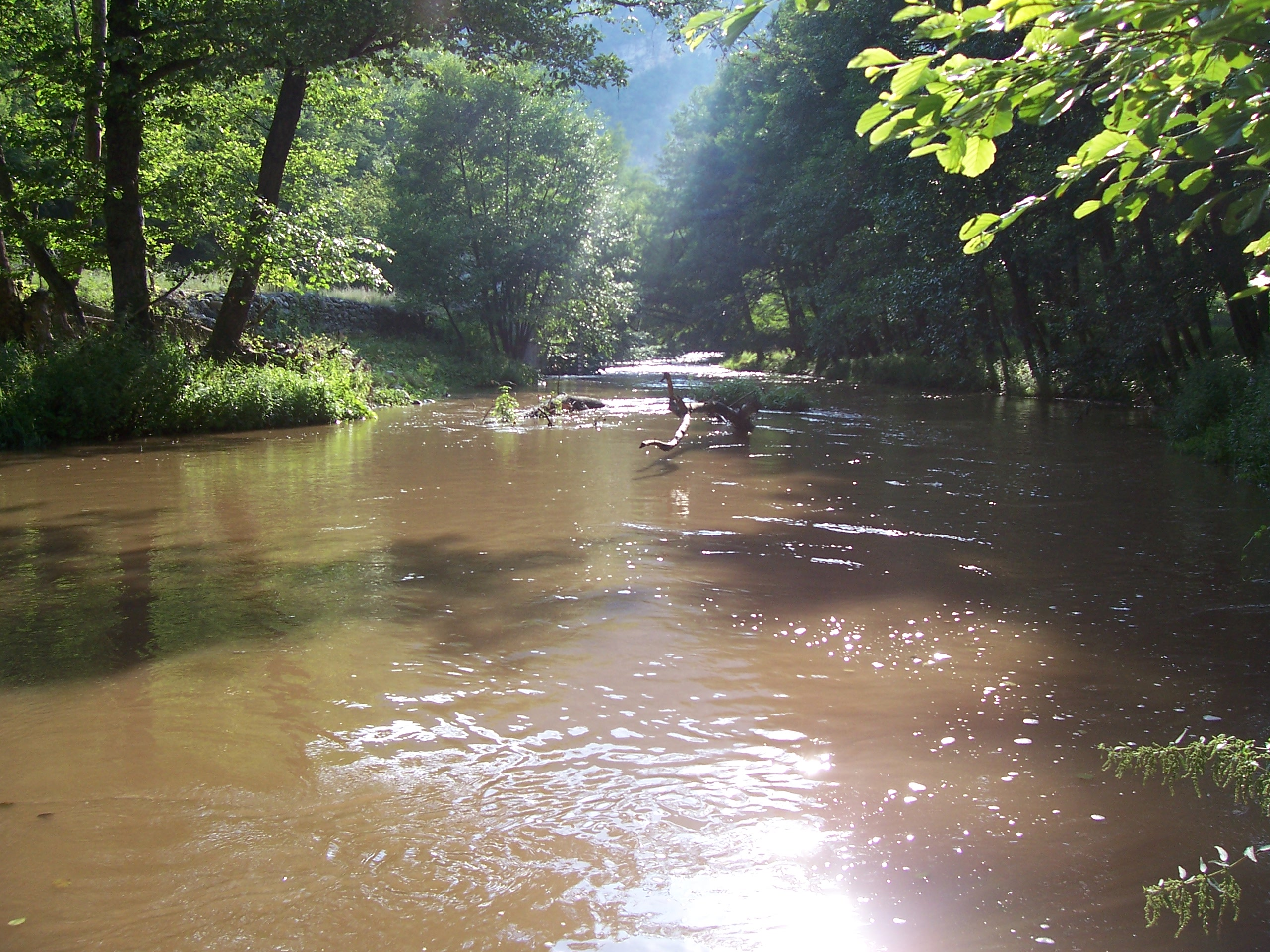 Dospat River near the village of Potamoi (Borovo), Greece.